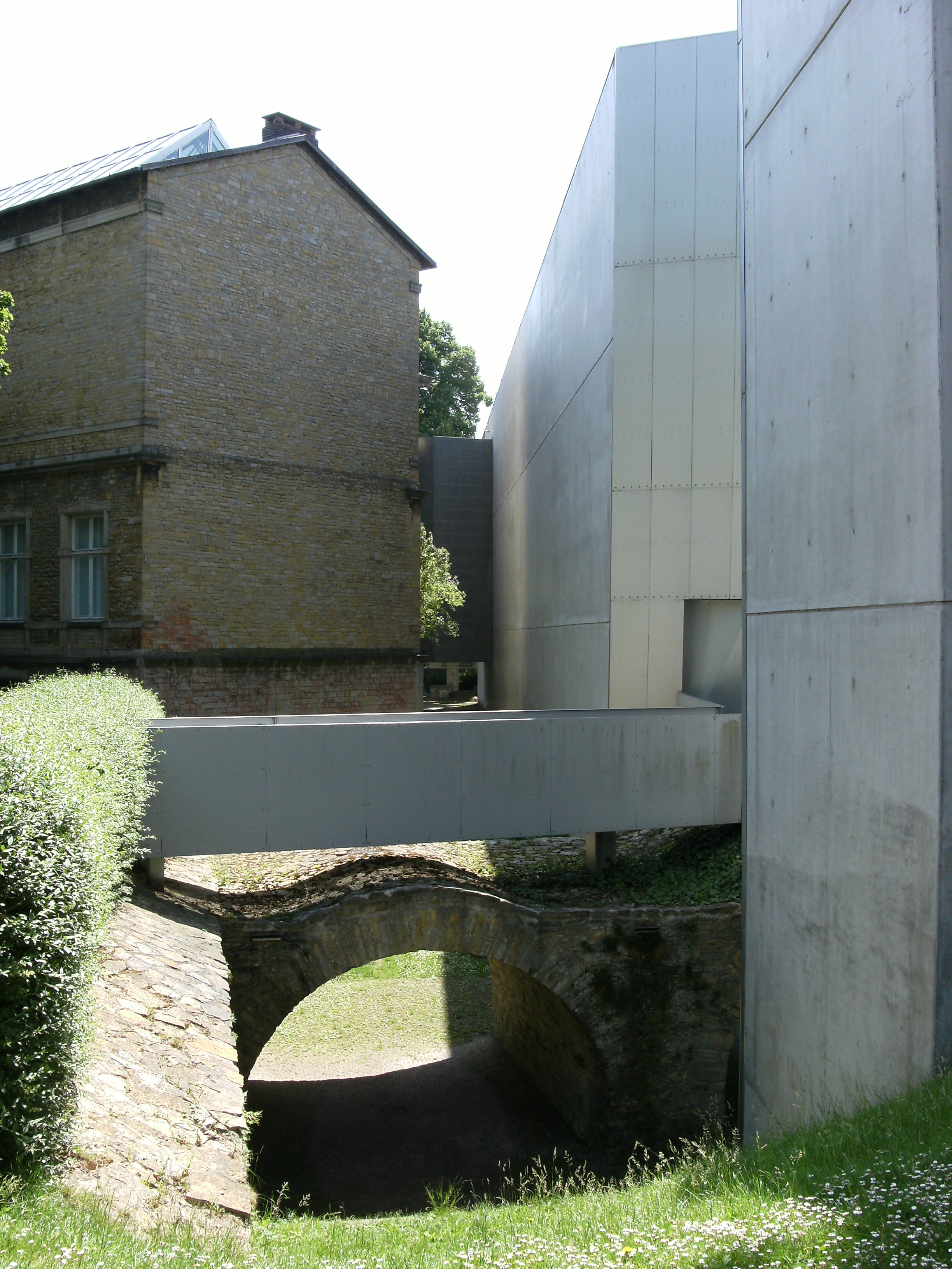 Museum in Osnabrück.